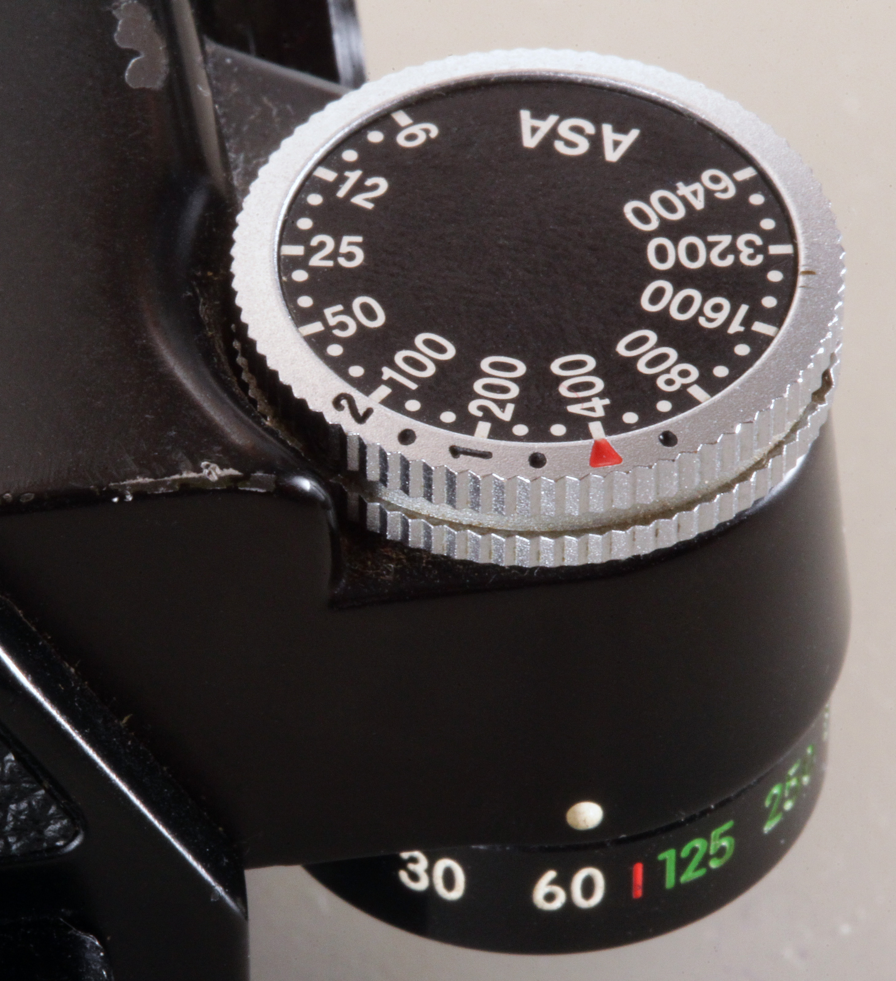 Exposure metering correction dial of Nikon DP-1 'Photomic' viewfinder.